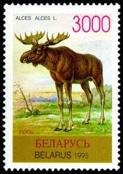 Stamp of Belarus